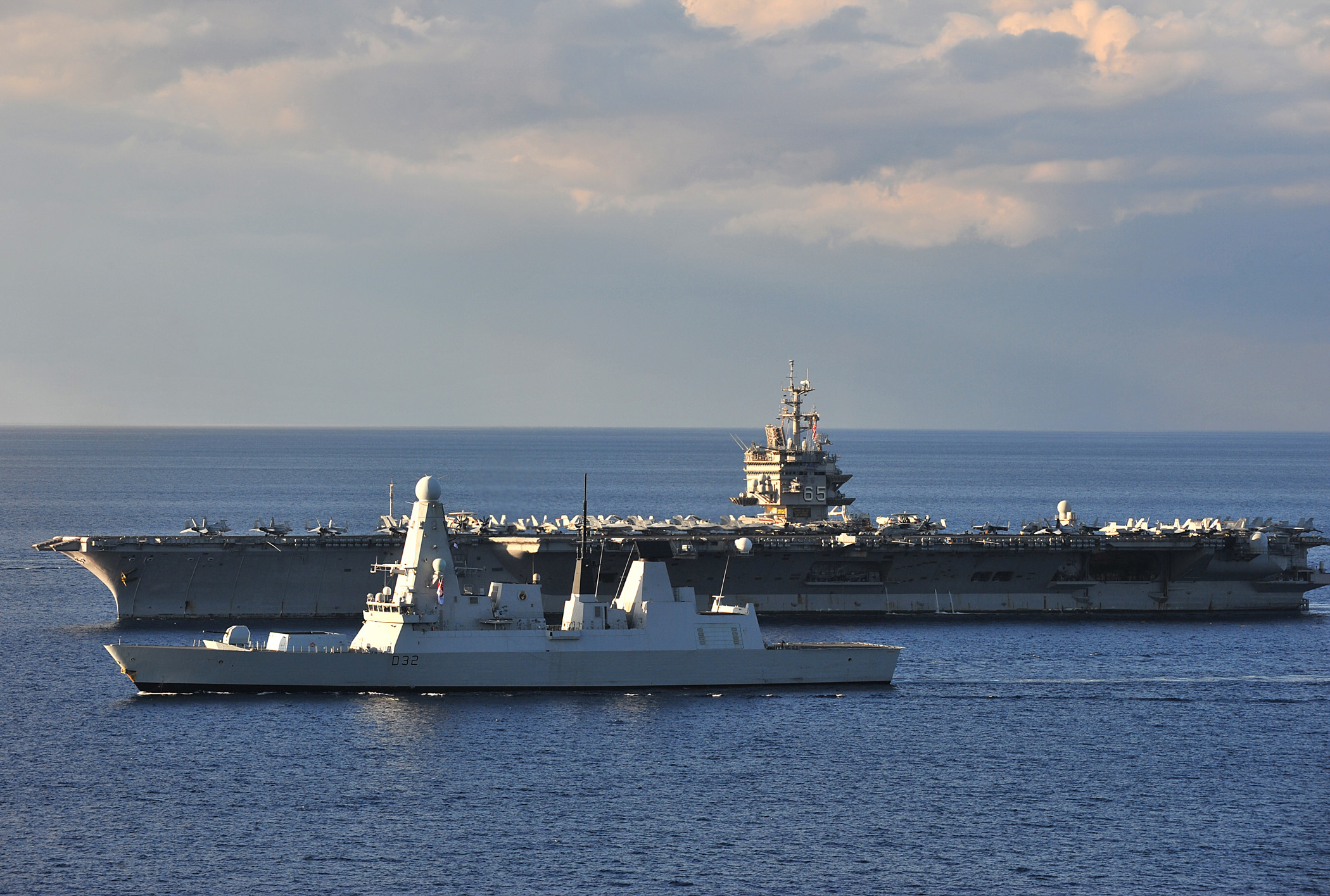 ATLANTIC OCEAN (Oct. 19, 2010) The aircraft carrier USS Enterprise (CVN 65) is underway with the Royal Navy destroyer HMS Daring (D 32) during a Composite Training Unit Exercise for the Enterprise Carrier Strike Group. (U.S. Navy photo by Mass Communication Specialist Seaman Alex R. Forster/Released)